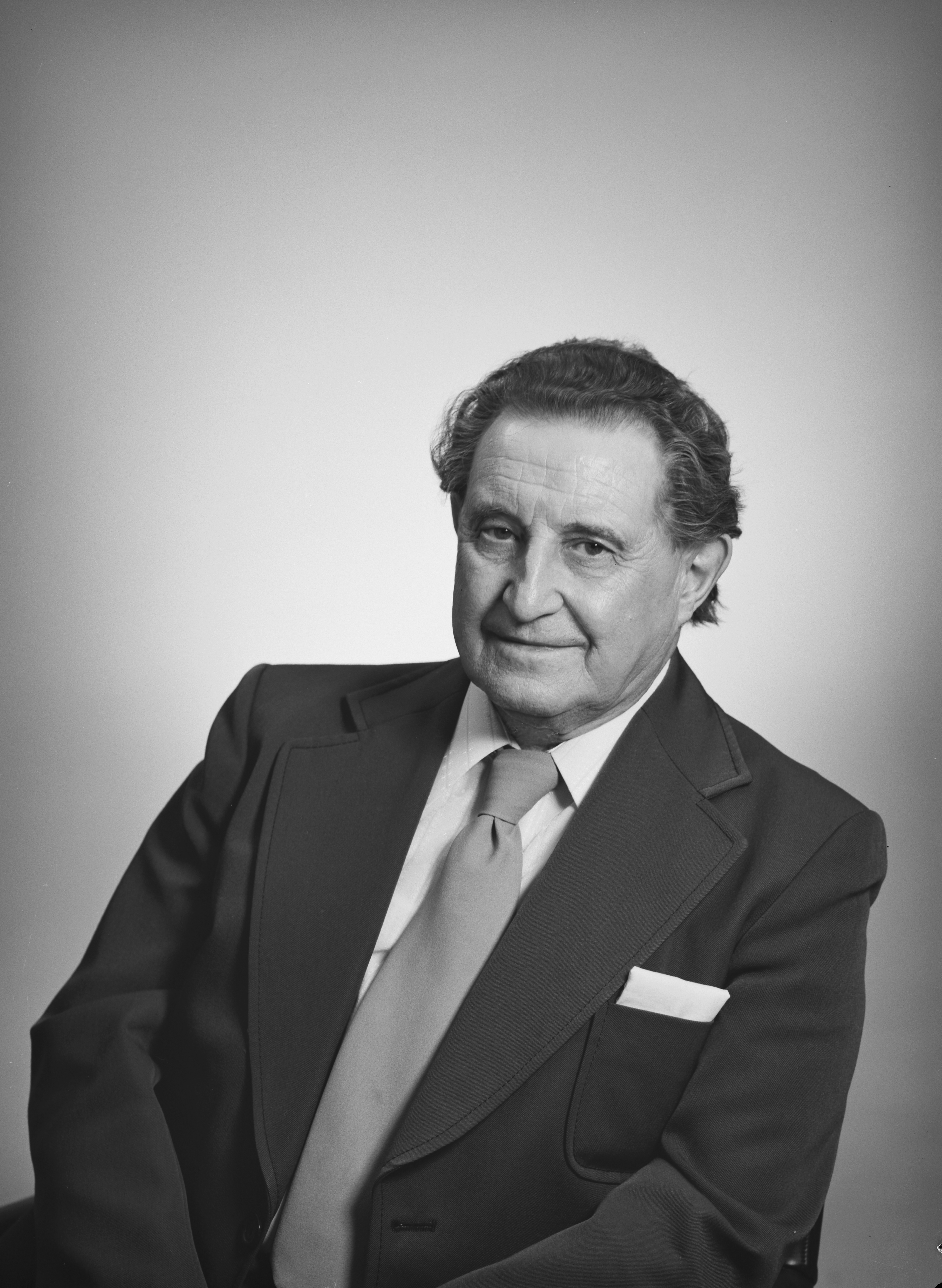 Photograph of the Finnish judge and pianist Kurt Walldén (1906–1979).